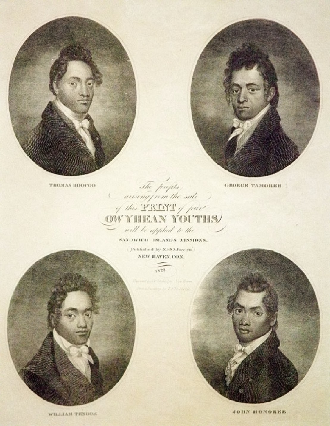 The "Four Owyhean Youths": Thomas Hoopoo, George Tamoree, William Tenooe and John Honoree.